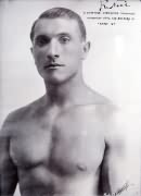 The Italian Olympic legend Romeo Neri